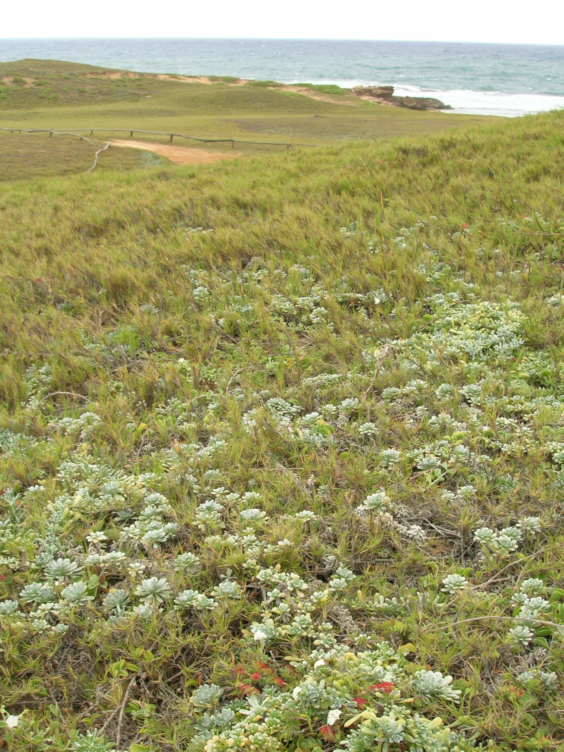 Heliotropium anomalum var. argenteum (habit). Location: Molokai, Moomomi